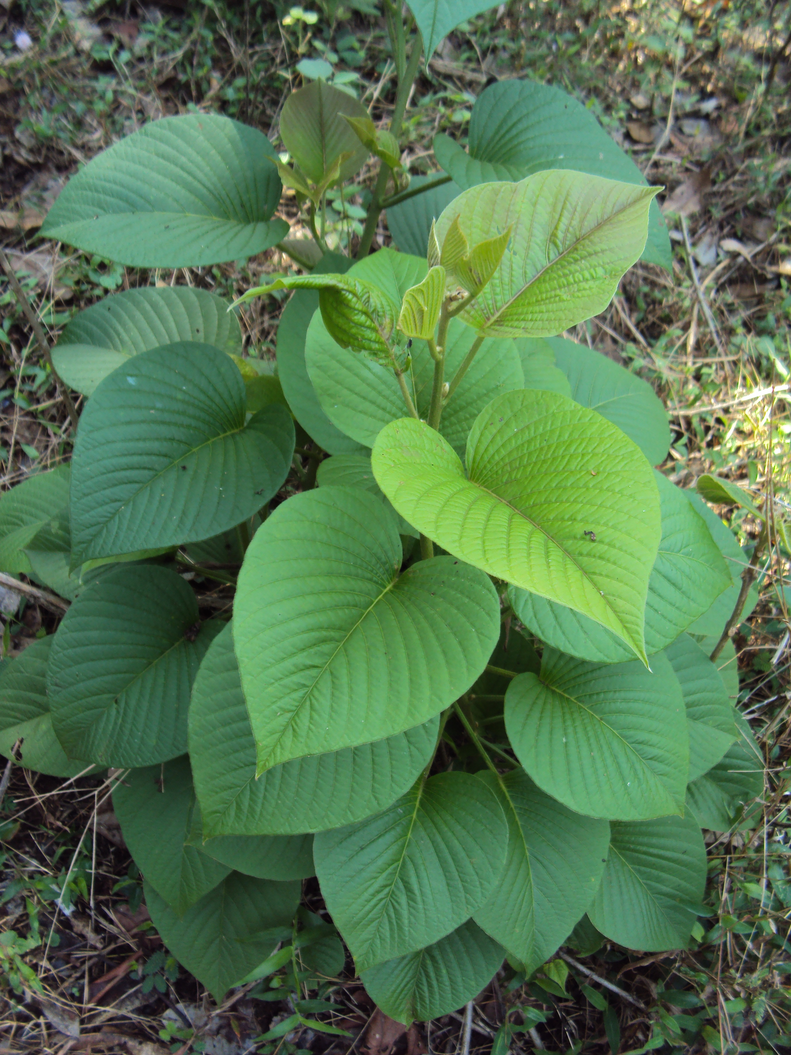 Argyreia nervosa